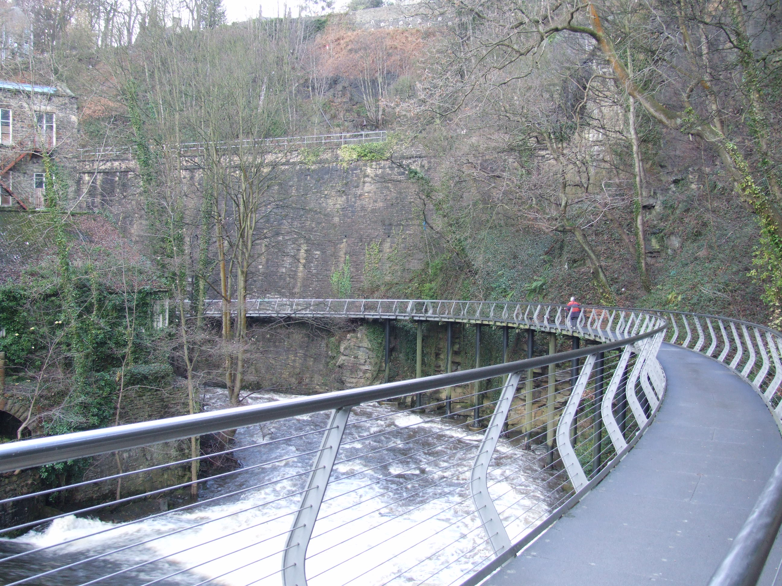 Torr Vale Mill is in "The Torrs', a gorge through Woodhead Hill Sandstone in New Mills, a village in the Peak District. It lies in a loop in the River Goyt. downstream from the confluence with the River Sett. Over the river is railway and the Millennium walkway. On the walkway above the weir.